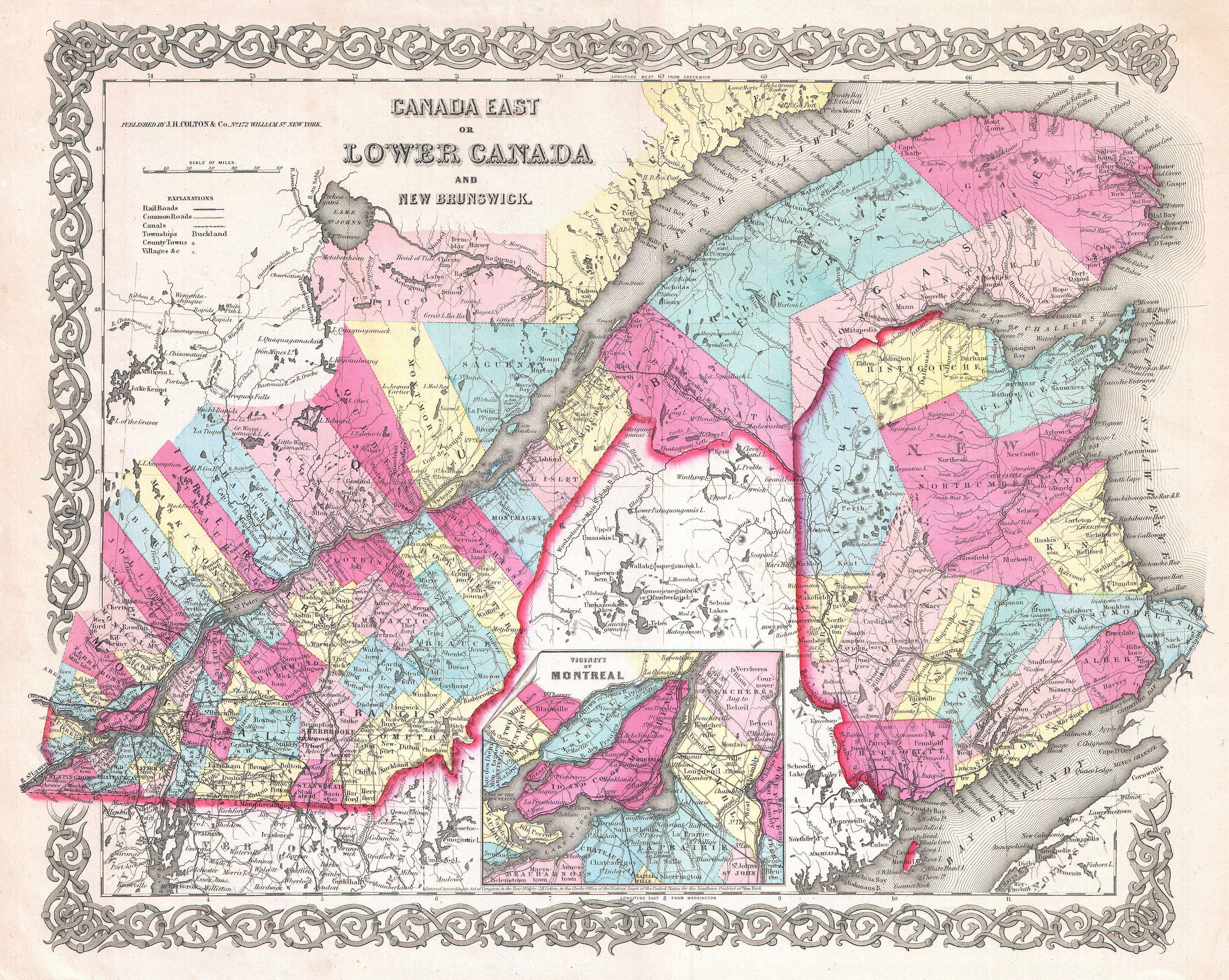 This is the very rare 1854 issue of J. H. Colton map of Canada East or Lower Canada. Covers what is today Montreal, Quebec, and New Brunswick. Follows the St. Lawrence River Valley from Montreal eastward to the Gulf of St. Lawrence. An inset in the lower part of the mat details the vicinity of Montreal. Divided according to county and district lines. Shows major roadways and railroads as well as geological features such as lakes and rivers. Dated and copyrighted: “Entered according to the Act of Congress in the Year of 1854 by J. H. Colton & Co. in the Clerk’s Office of the District Court of the United States for the Southern District of New York.” Published from Colton’s 172 William Street Office in New York City, NY.